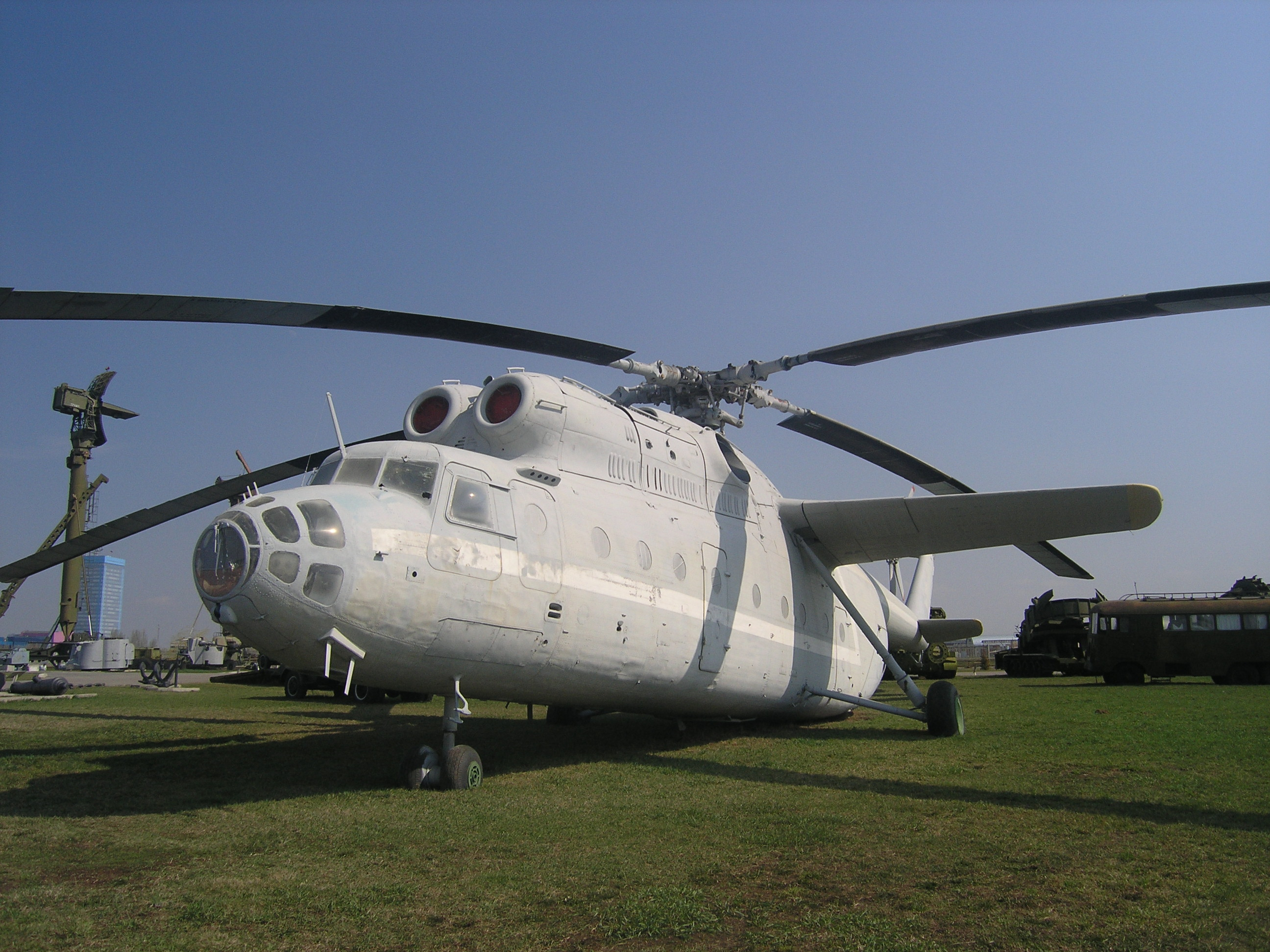 Mi-6, technical museum, Togliatti, Russia